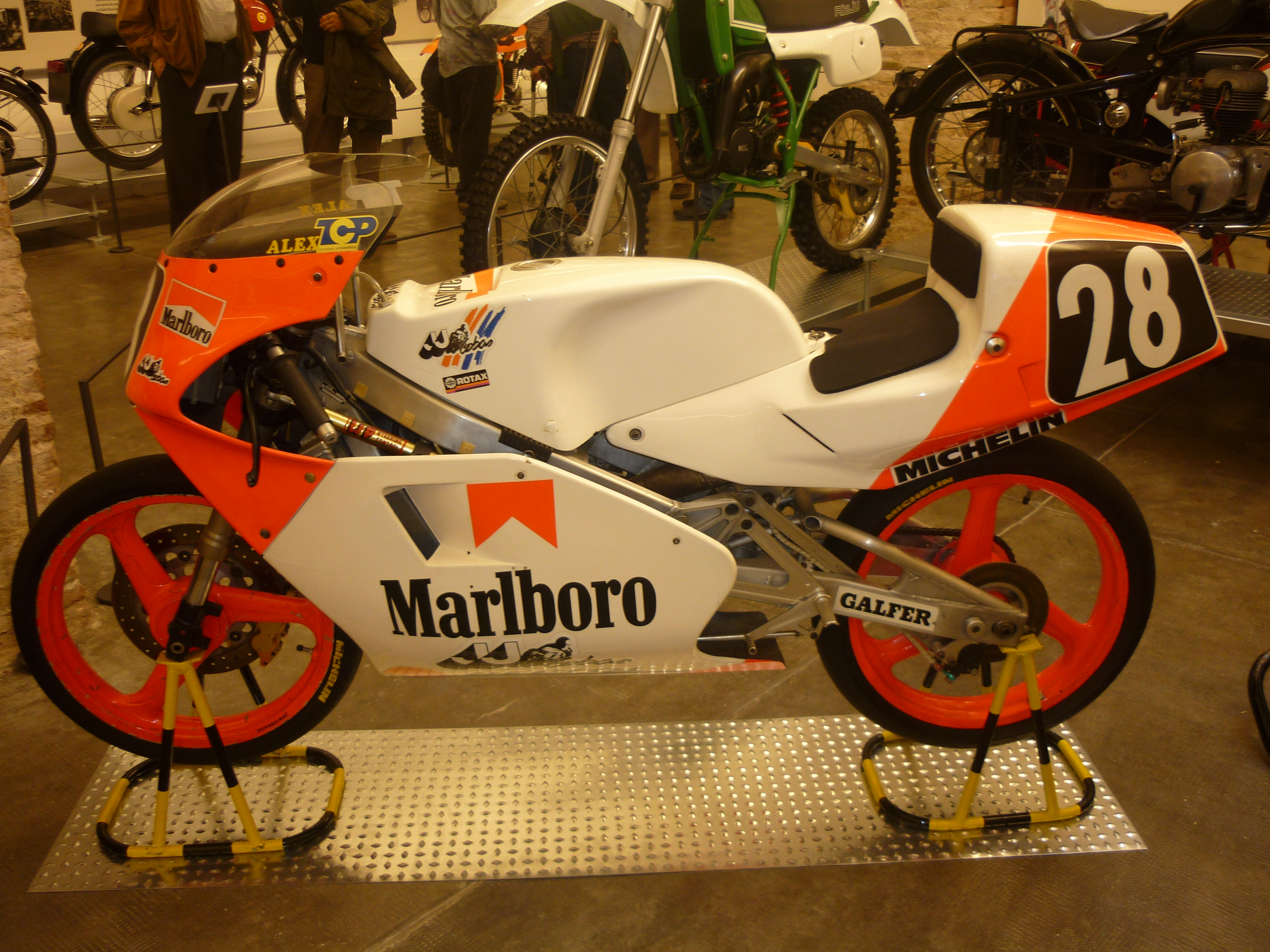 Àlex Crivillé's JJ Cobas 125cc (Rotax engine). On this bike, Crivillé won the 1989 Riders' World Championship. Museu de la Moto de Barcelona (Catalonia).